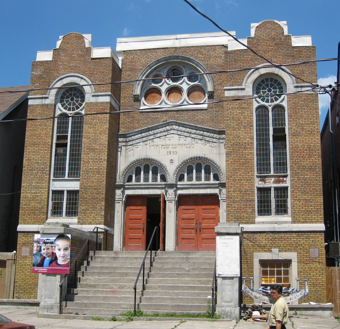 Minsk Congregation Synagogue (1930), Kensington Market, Toronto